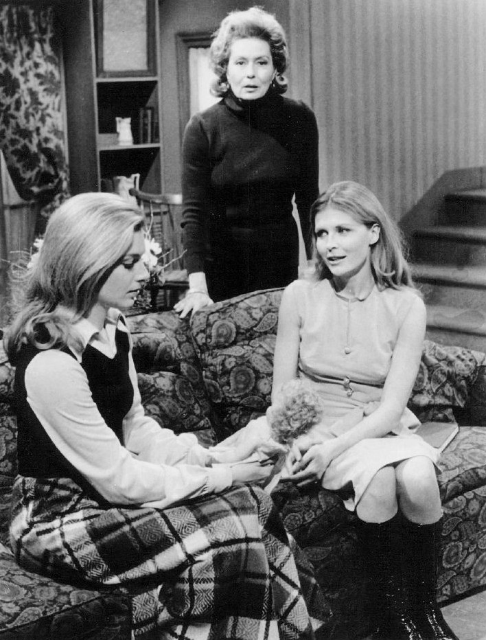 Scene from the daytime drama Another World. Pictured are Susan Sullivan (Lenore Moore), Murial Williams (Mrs. Moore, her mother), and Beverly Penberthy (Pat Matthews Randolph).